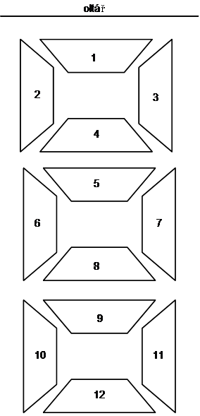 schema